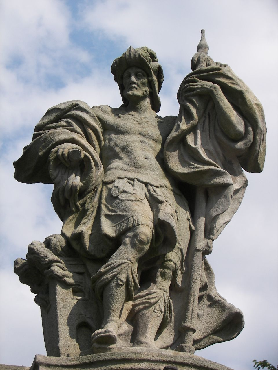 Johannes Nitsche, St. Florian's statue in Polska Cerekiew, Poland. 1780